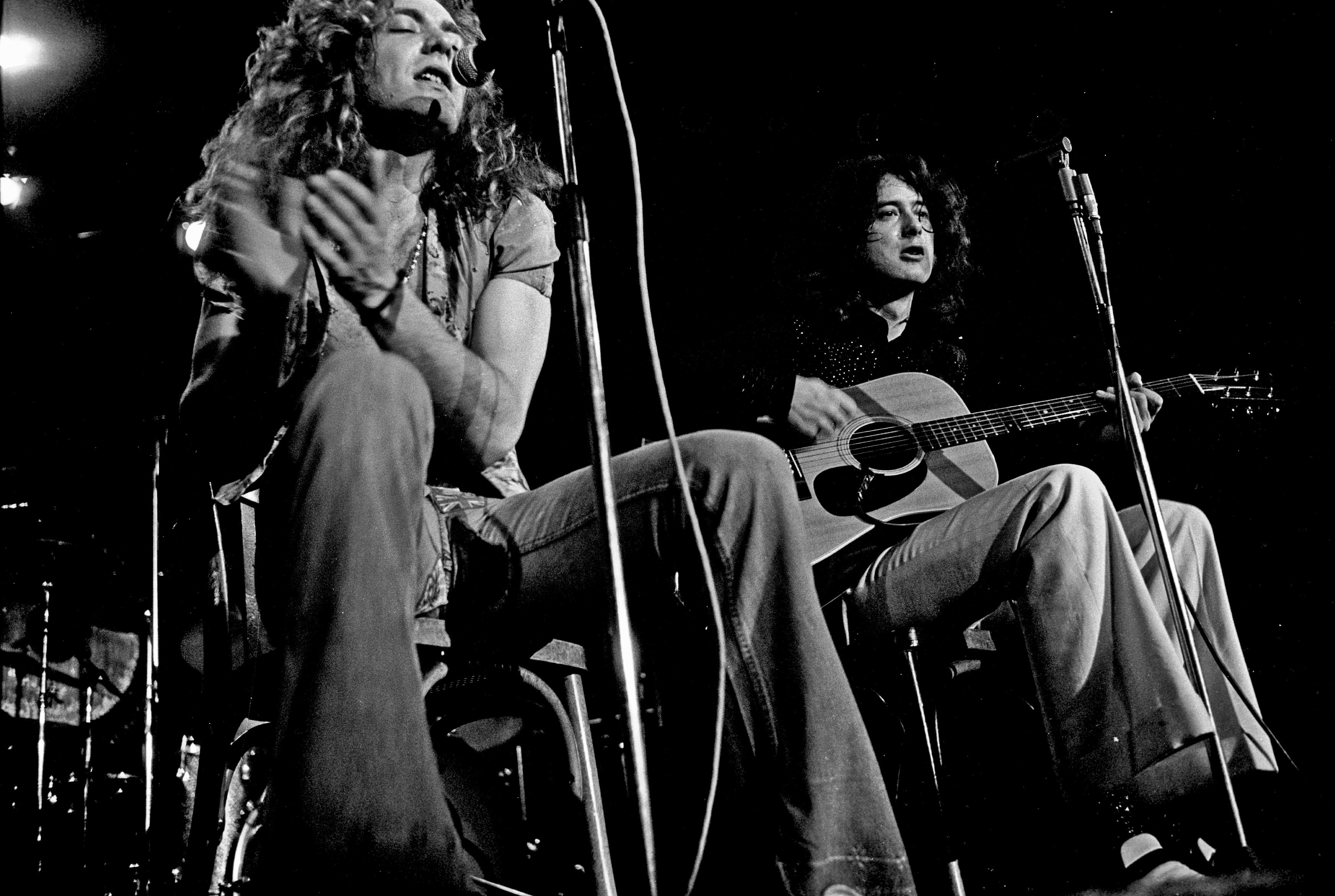 Led Zeppelin in Hamburg, Germany 1973. Robert Plant, Jimmy Page Copyright: Heinrich Klaffs Artikel zum Foto auf: [1]